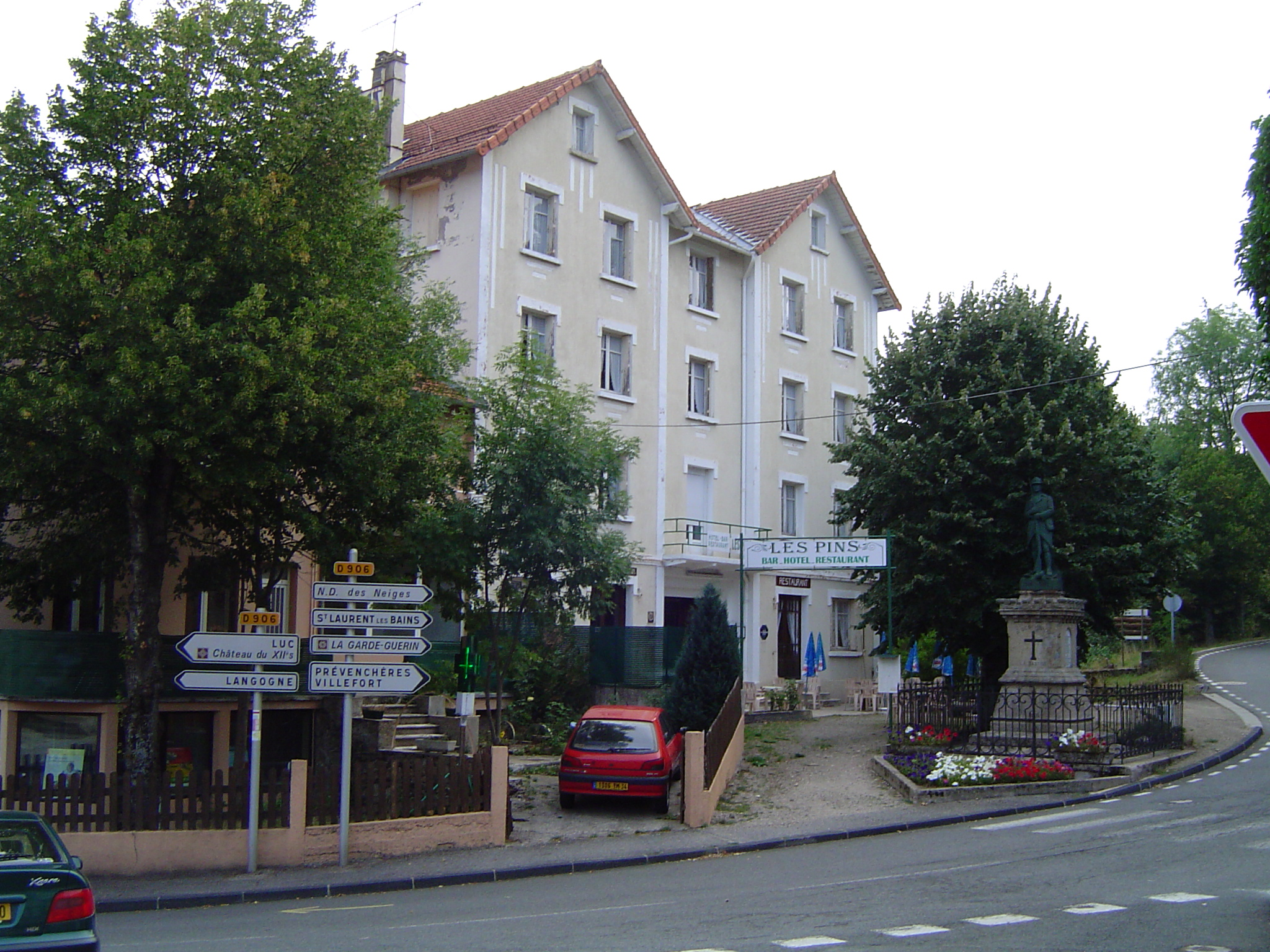 La Bastide-Puylaurent, monument aux morts à La Bastide